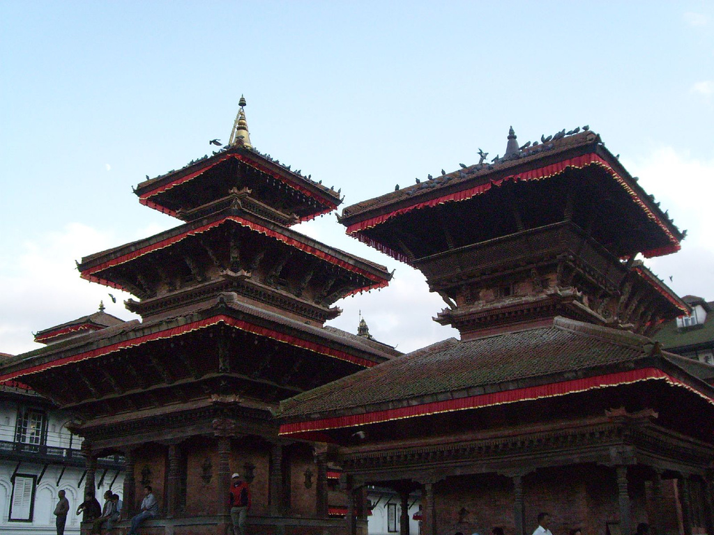 Vishnu Temple (left) and Indrapur Temple (right) at Kathmandu Durbar Square, Nepal